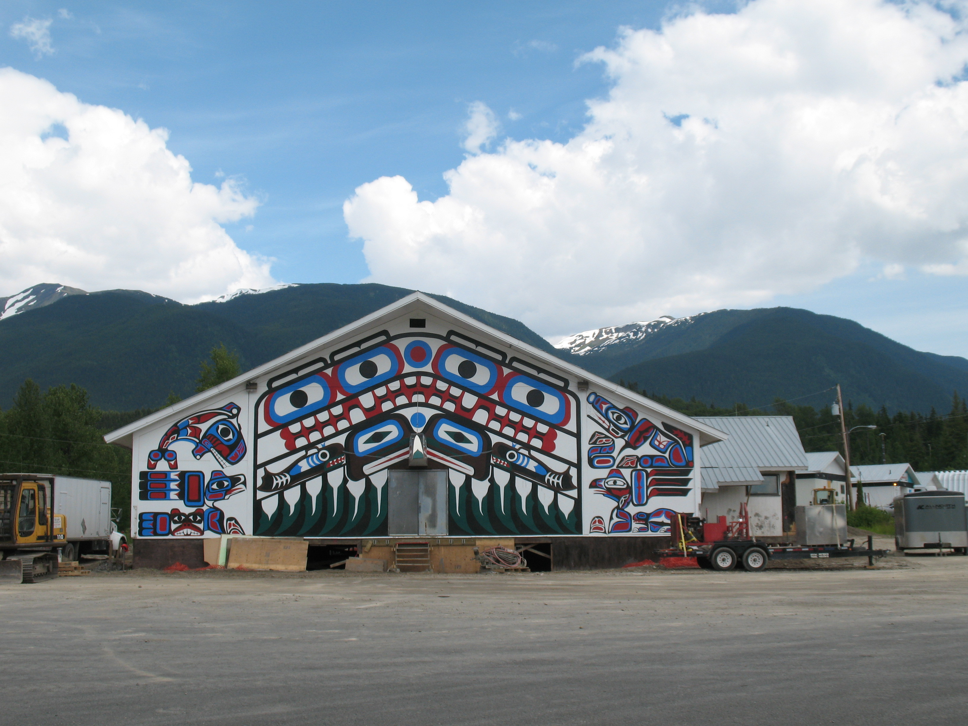 traditional Nisga'a house in New Ayanish